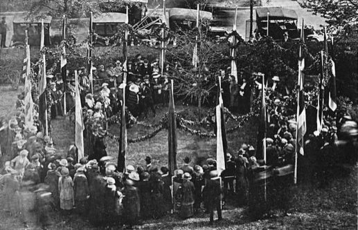 The tree planting ceremony in the grounds of the Pan American Union, April 28, 1922. Photo by George F. Hirschman.